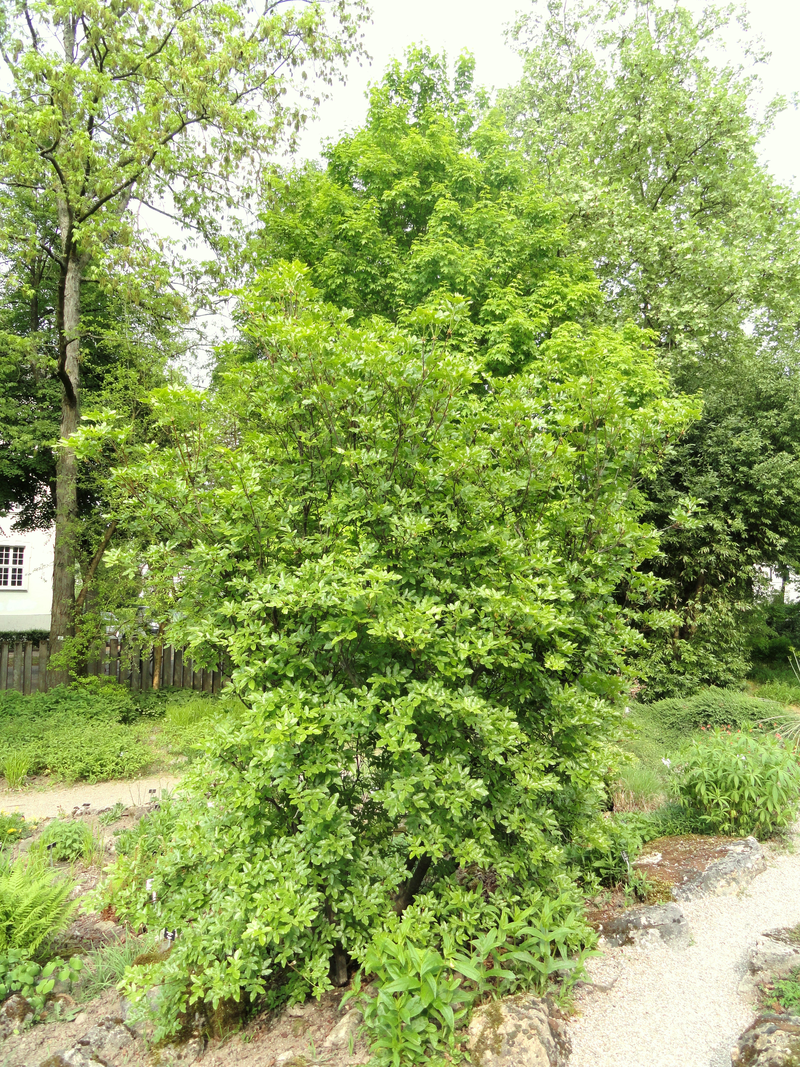 Eucryphia glutinosa specimen in the Botanischer Garten Freiburg, Freiburg im Breisgau, Baden-Württemberg, Germany.